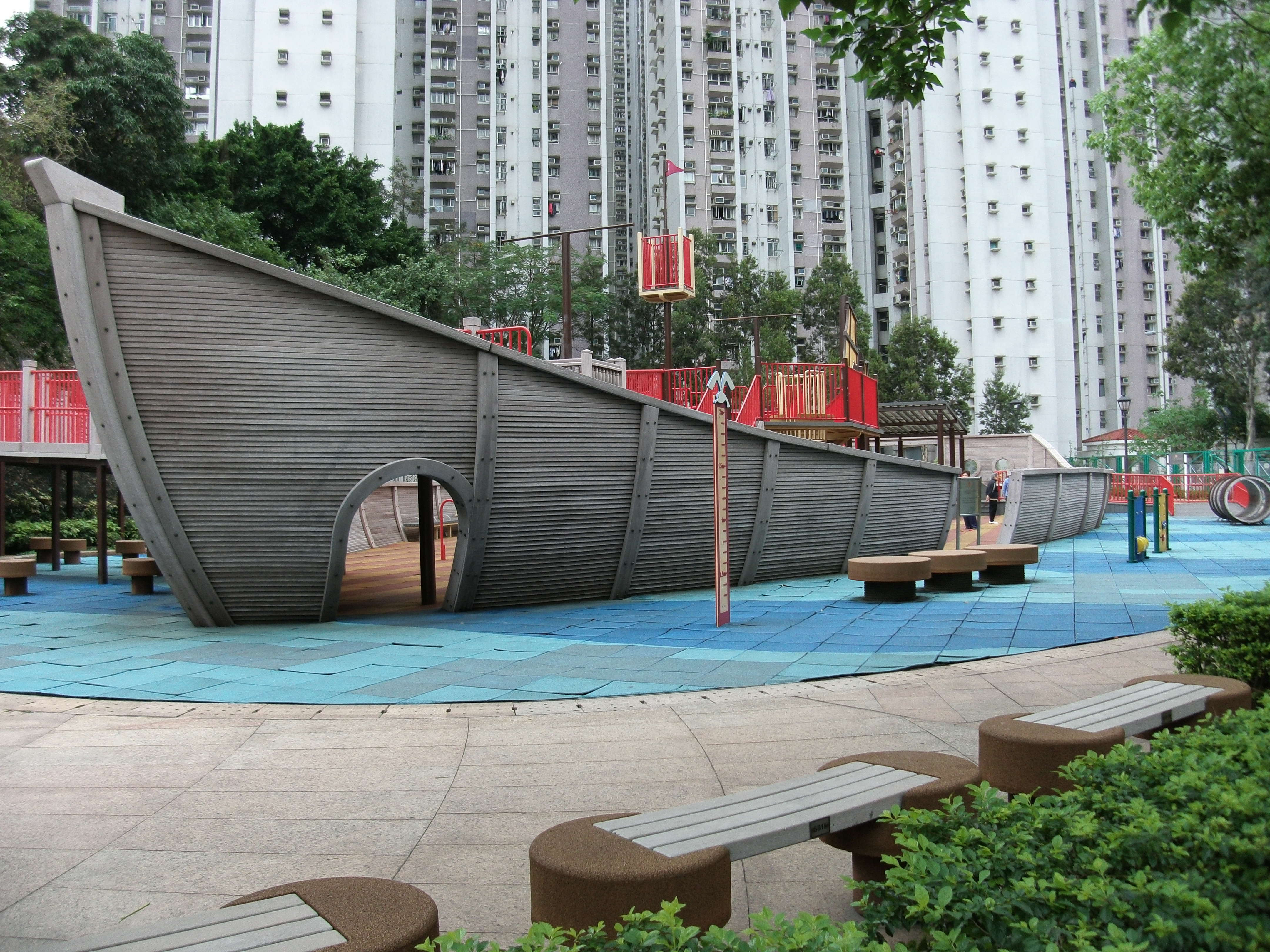 Ship in mouse island children's playground, Hong Kong